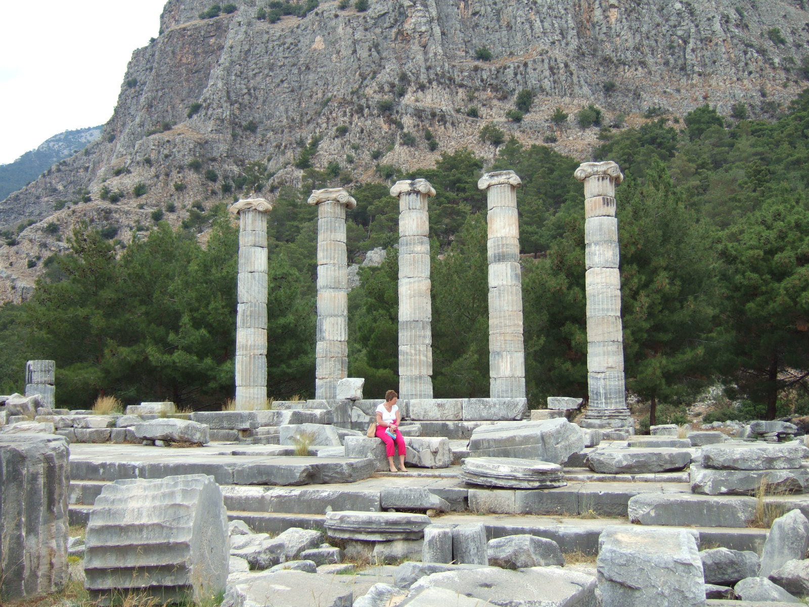 Temple of Athena at Priene. Taken by me (Peterdhduncan) May 2007. Released into the public domain.